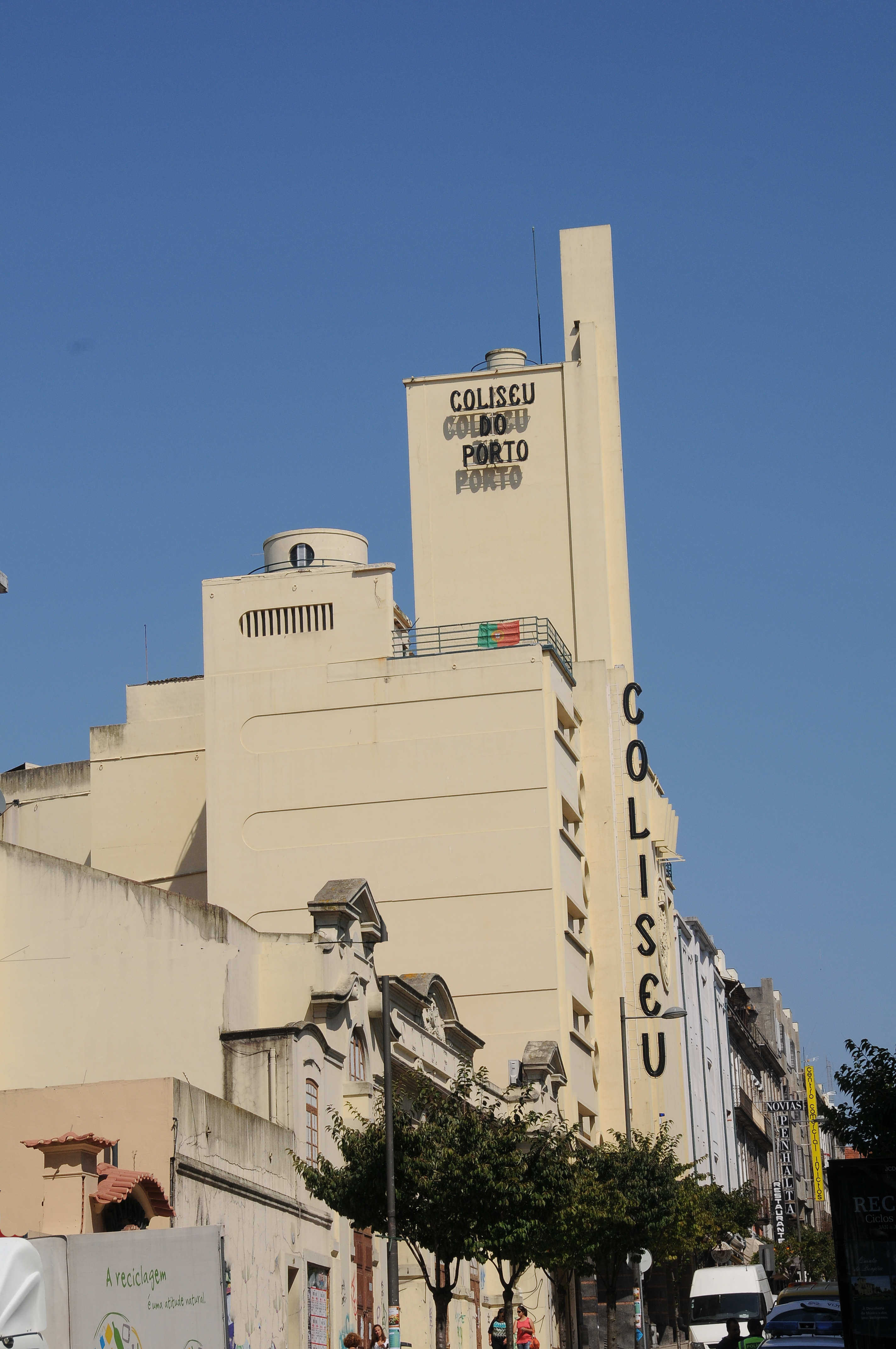 Coliseu do Porto in Porto Portugal.